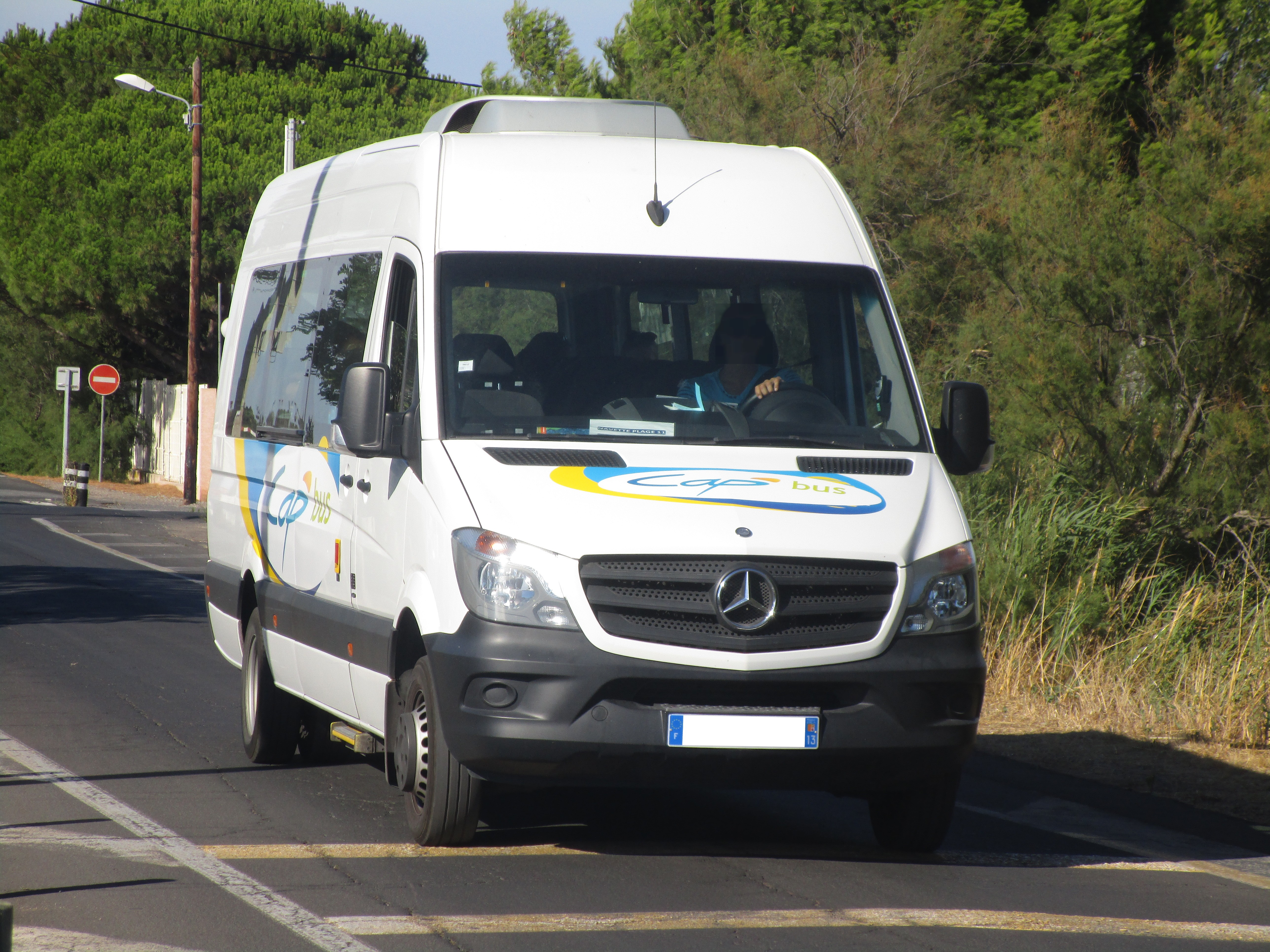 The Mercedes-Benz Sprinter Transfer n°463 (in loan on the bus network Cap’Bus), running on the line 11 (La Criée, Le Grau d’Agde↔Village Naturiste, Cap d’Agde) — in the Grau d’Agde, France — on July 26, 2017.